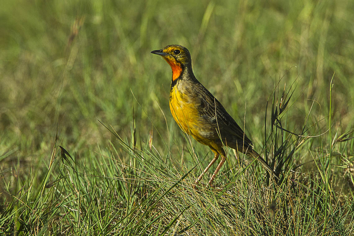 Orange-throated Longclaw - Natal - South Africa_S4E6625